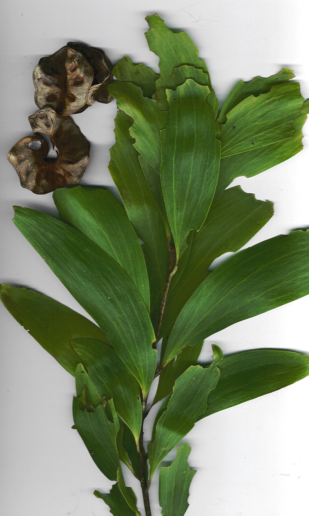 Acacia auriculiformis (leaves and seed pods). Location: Maui, Hamakuapoko